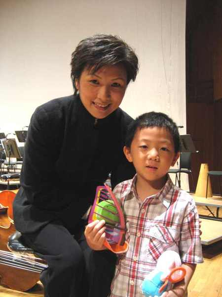 Theodore and Yip Wing-Sie of the Hong Kong sinfonietta.